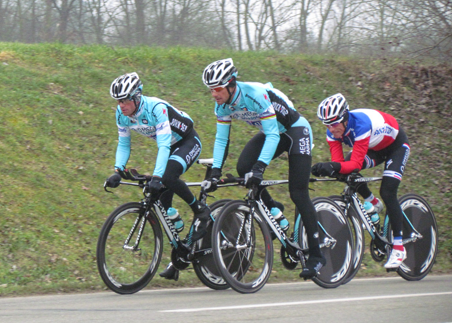 Omega Pharma Quick Step